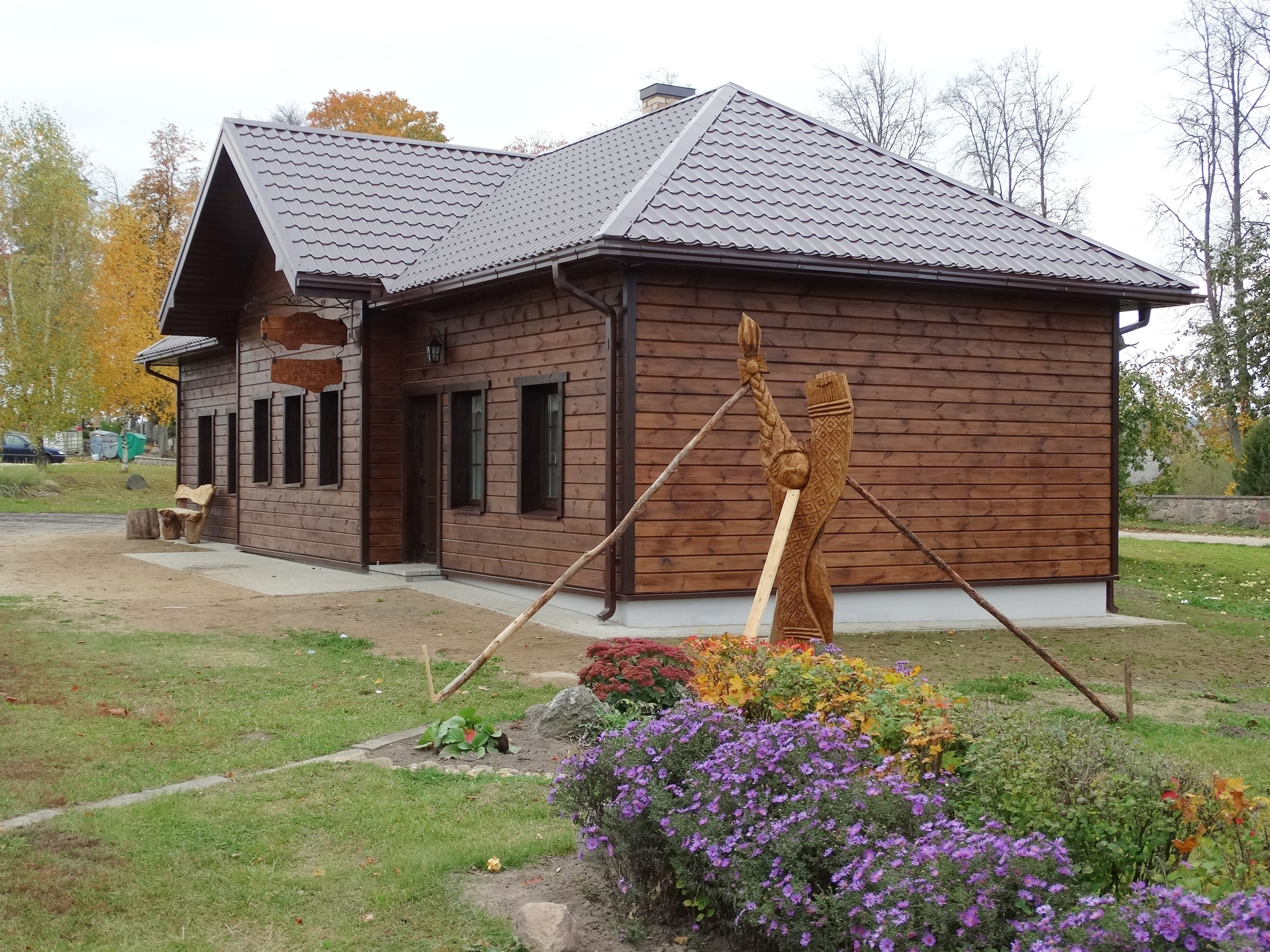 Centre of crafts, Rudamina, Lazdijai district, Lithuania